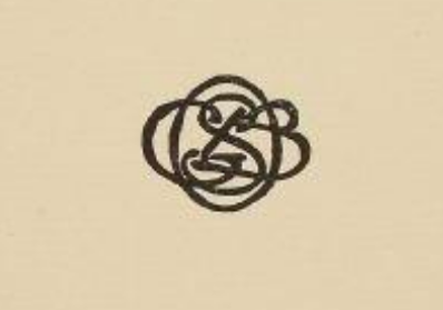 Monogram & mark for the Société de la gravure sur bois originale (SGDO, Paris).